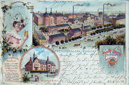 Picture postcard showing Vereinsbrauerei Rixdorf in Berlin in 1899. This is a retouched picture, which means that it has been digitally altered from its original version. Modifications: color adjustments. Modifications made by 1970gemini.